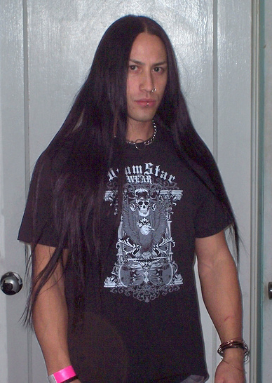 Tim yeung